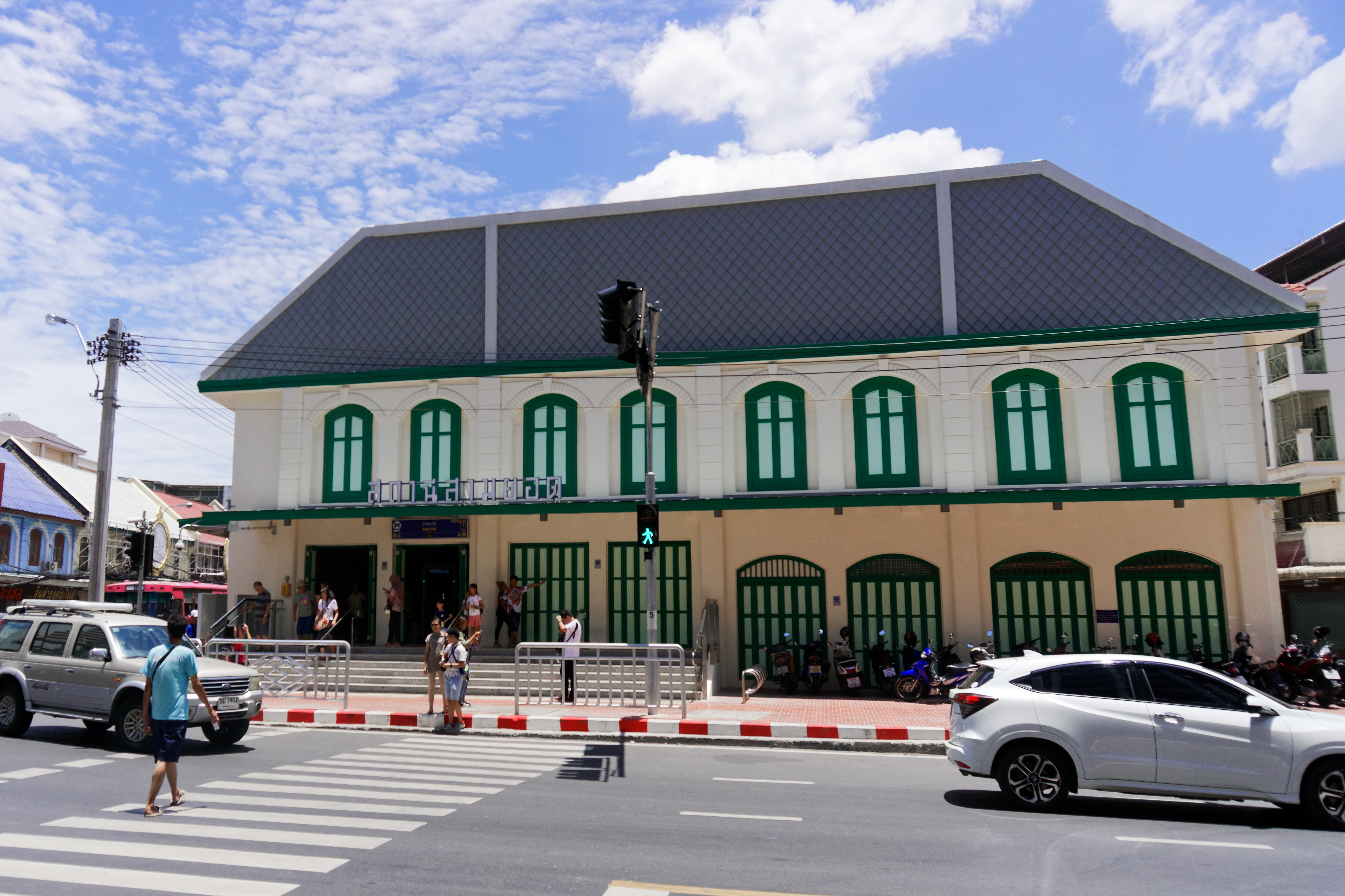 MRT Sam Yot train station: Entrance 1 near Sam Yot junction. The sign above the entrance's roof is read: Sam Yot station (in Thai) The building you see isn't the actual one. But it's just a placeholder building contain an entrance and air duct for the train system.